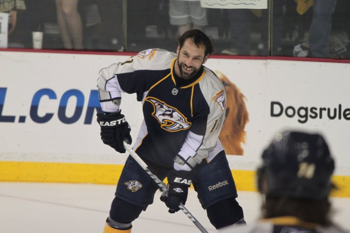 Legwand warming up during the conference semifinal against Vancouver in 2011